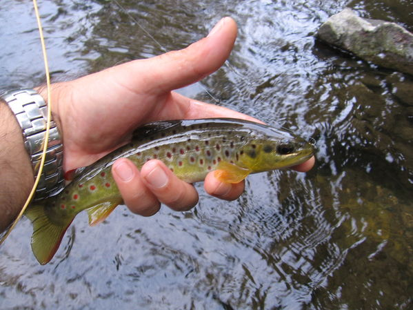 A litle Brown trout from Bulgaria. Please "catch and release"